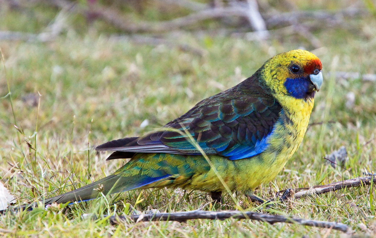 Green Rosella (also known as Tasmanian Rosella) in Tasmania, Australia.